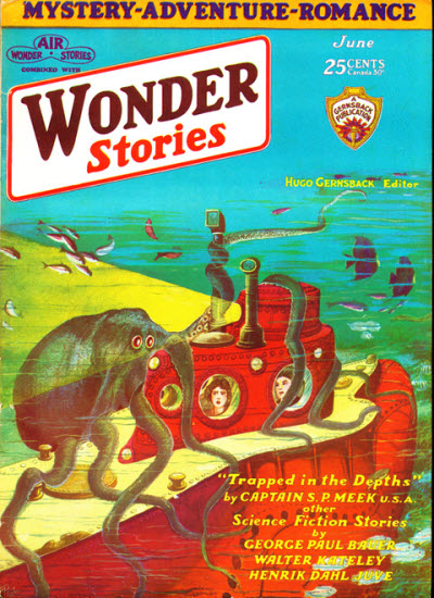 Cover of Wonder Stories, June 1930